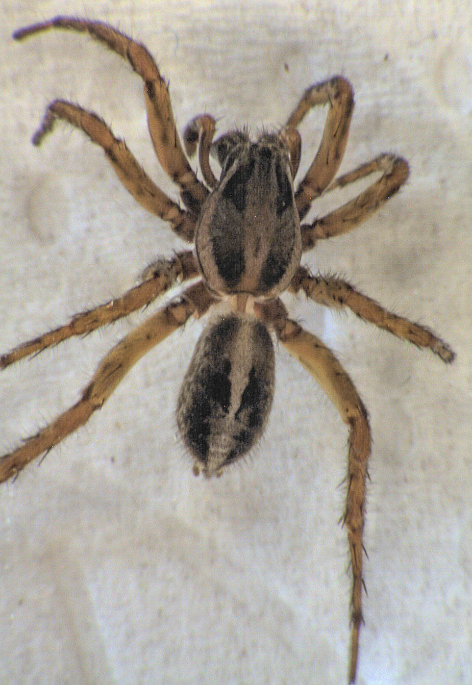 adult male Artoriopsis expolita